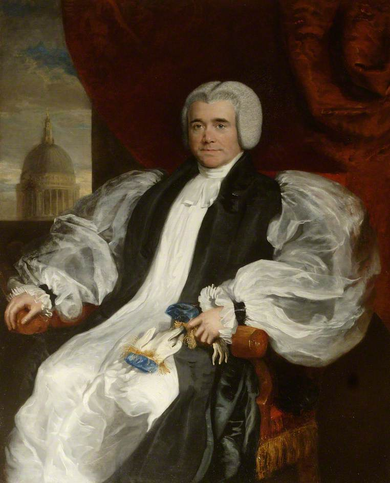 Edward Copleston, Bishop of Llandaff and Dean of St Paul's